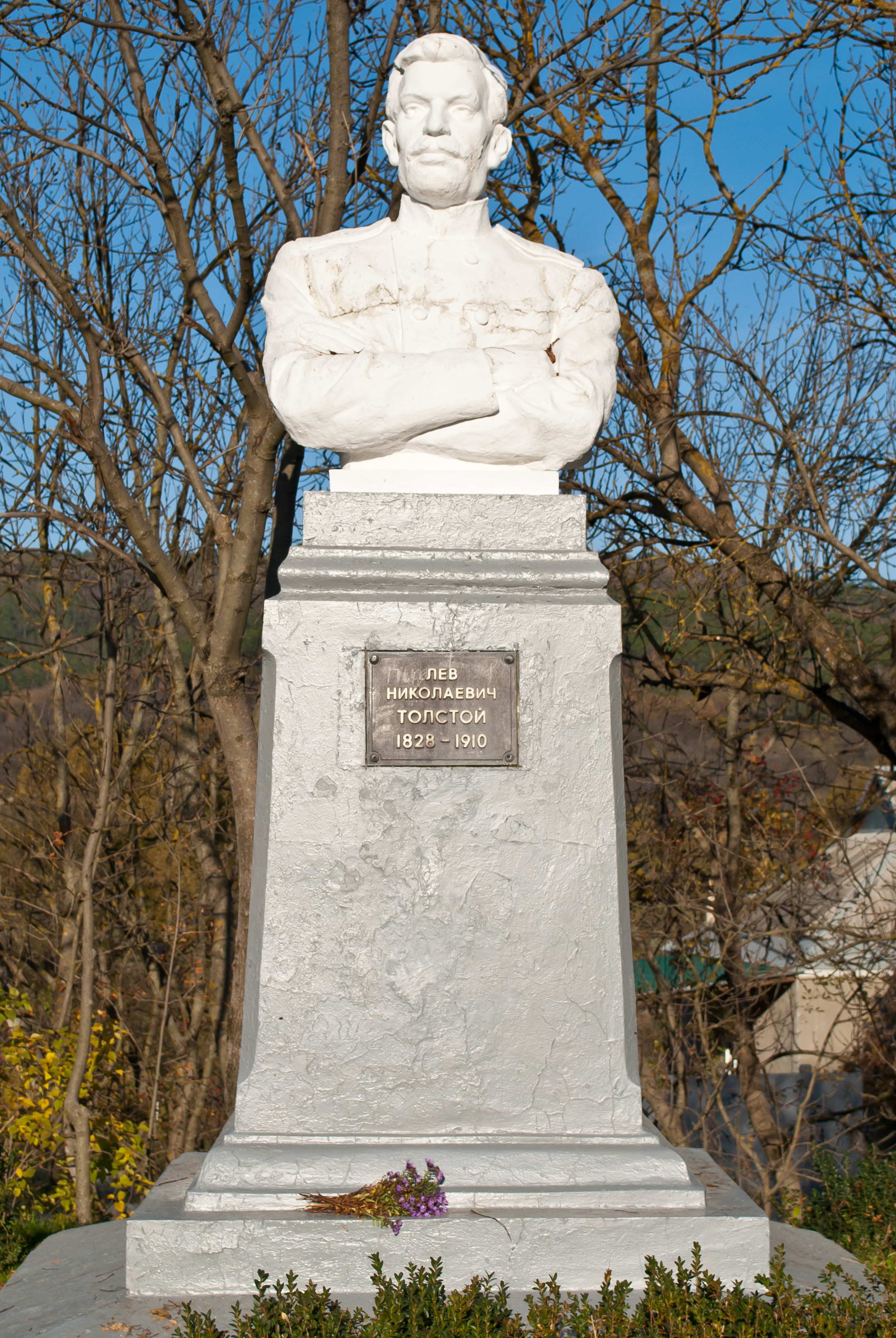 Monument to Leo Tolstoy in the village Lozovoye (Simferopol district, Crimea).